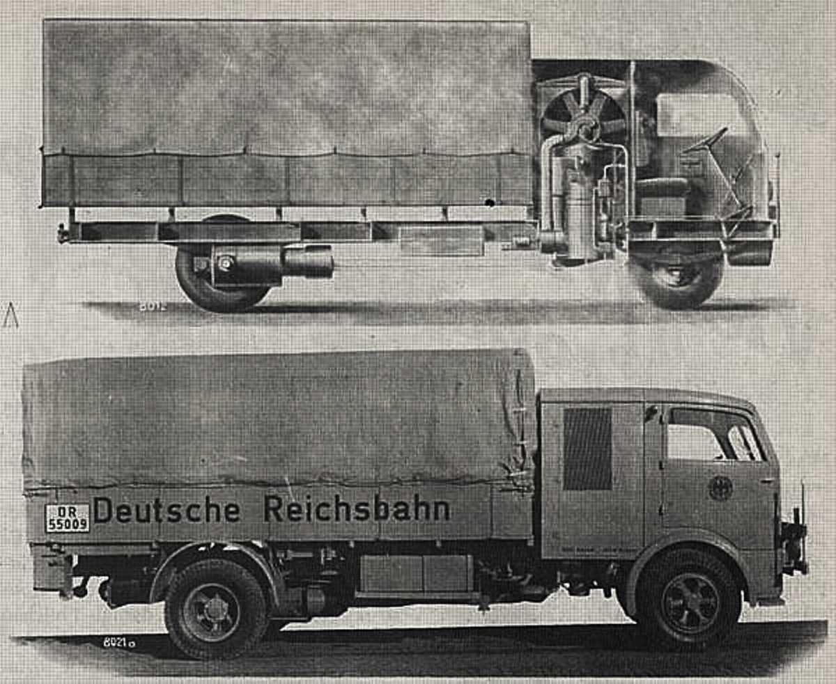 1936 photo of the henshel steam lorry